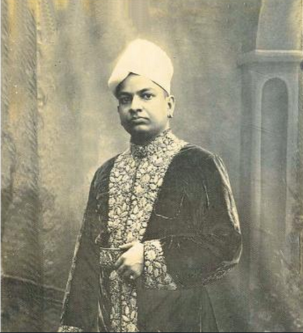 Photo of Sri Rama Varma of Haripad, the consort of Sethu Lakshmi Bayi, the Regent of Travancore (1924-1931).